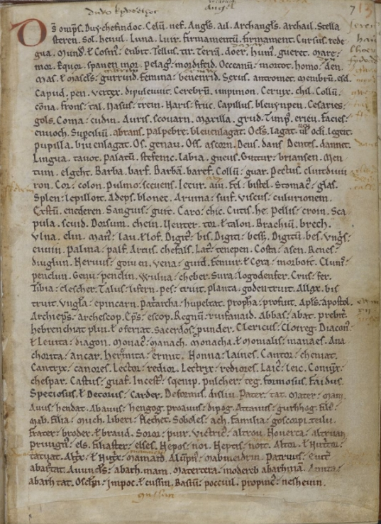 Opening page of Vocabularium Cornicum